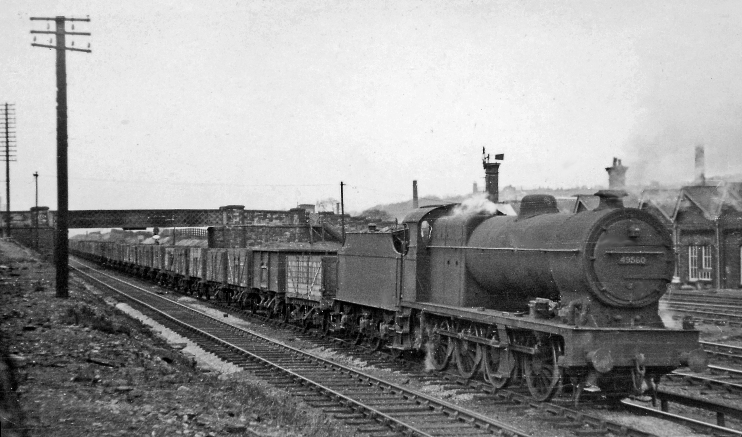 Eastbound empties at Mirfield. View westward, towards Manchester, via Sowerby Bridge and Todmorden on the ex-L&Y, via Huddersfield and Stalybridge on the ex-LNW: four-track section of the Calder Valley main line. The Class F train is passing the Locomotive Depot west of Mirfield station, headed by one of the LMS Fowler 7F 0-8-0 which abounded on this route, No. 49560 (built 1929, withdrawn 12/57).